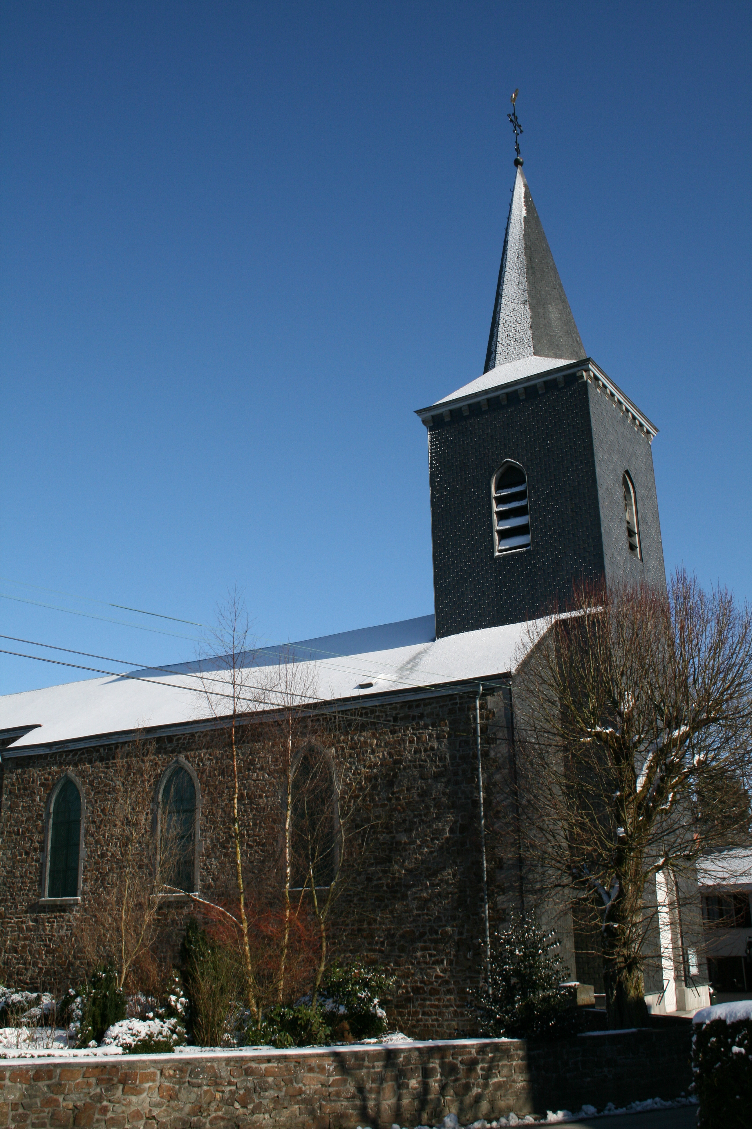 Journal (Tenneville) (Belgium), the Saint Joseph church (1864).